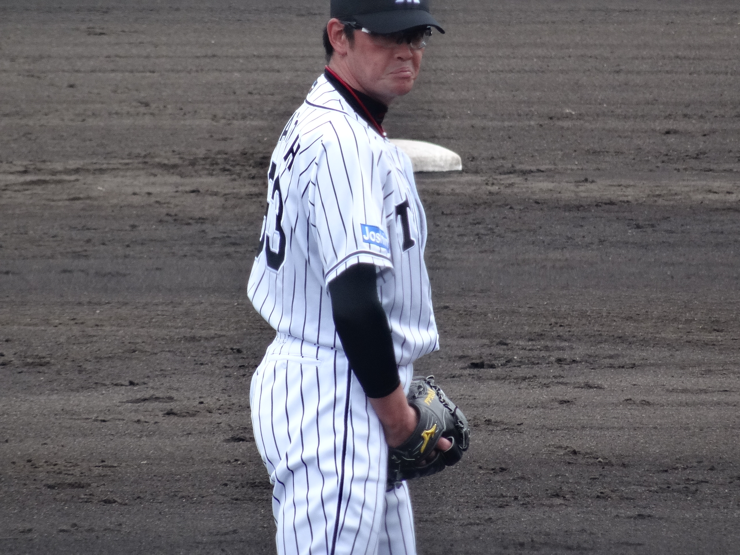 Kosuke Kato, pitcher of the Hanshin Tigers, at Hanshin Naruohama Baseball Ground.